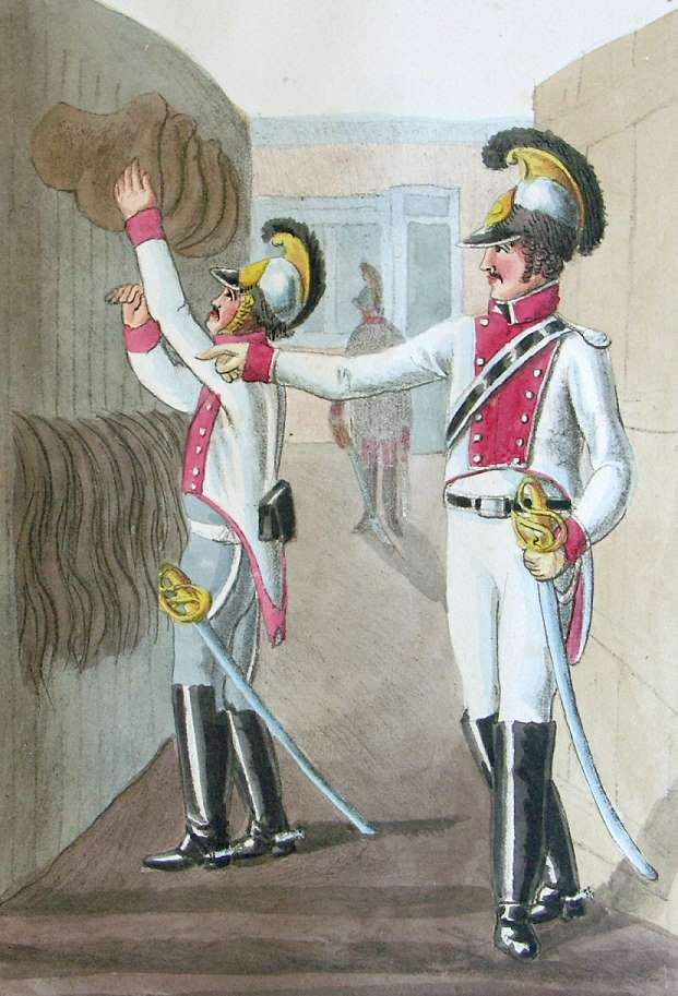 uniform plate